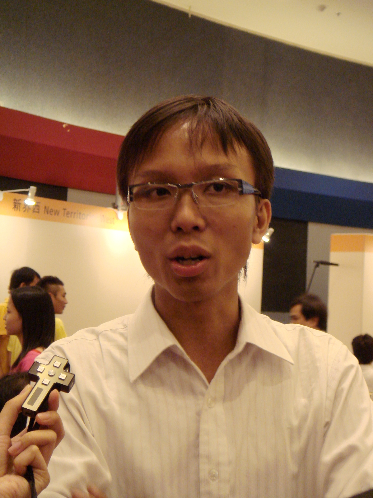 Roy Tam Hoi Pong